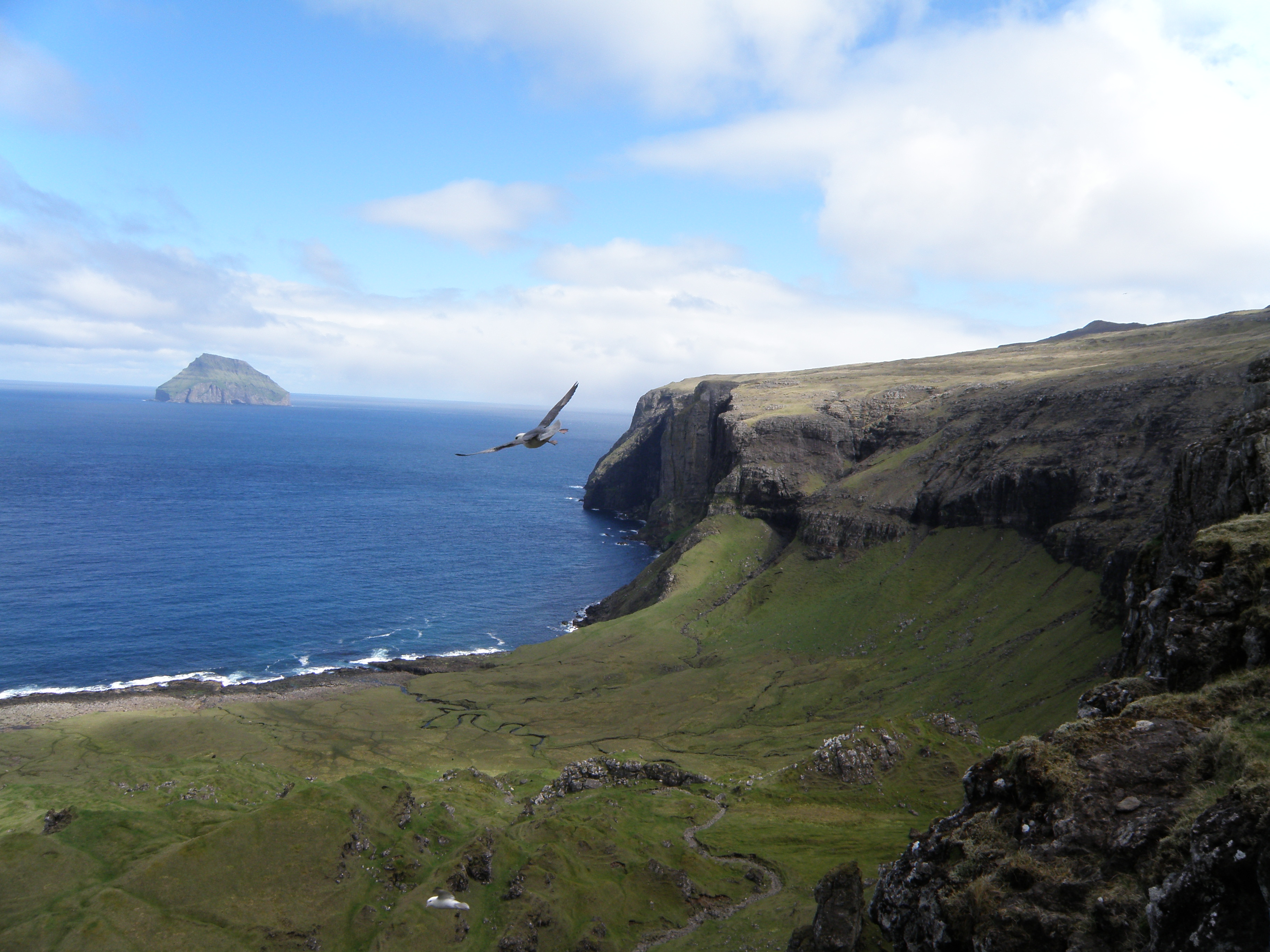 Hvannhagi is a beautiful and peaceful place on the east coast of Suðuroy, Faroe Islands, north of the villages Trongisvágur, Tvøroyri and Froðba, south of Hvalba. Hvannhagi is a valley with a lake in it. The mountains around it are quite high and steep, there are only two places where people can walk down there, the other place is on the southern side where the gate is and the other is on the eastern side above the lake, through a gorge called Frostgjógv. This photo is taken from the path which goes from the gate down to the valley. The view is towards east to the small island Lítla Dímun, which is the smallest of the 18 islands of the Faroes. Lítla Dímun is not inhabited. Føroyskt: Hvannhagi er ein vakur hagi í Suðuroynni. Hvannhagi er norðanfyri bygdirnar Trongisvág, Tvøroyri og Froðba og sunnanfyri Nes í Hvalba. Eitt vatn er í Hvannhaga og beint norðanfyri er ein hólmur sum nevnist Hvannhólmur. Hvannhagi er eitt vælumtókt stað hjá ferðafólki at fara gongutúr til. Ein kann bert koma til Hvannhaga til gongu ella við báti. Á hesi myndini sæst útsýni frá gøtuni, sum førir oman í Hvannhaga frá portinum. Útýnið er móti eystri har Lítli Dímun sæst.